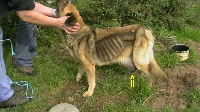 Bitch with a 9-months-old mammary tumor Walon: lexhe avou on magnant må ås tetes dispu 9 moes (ki n' a pus k' el pea so les oxheas)